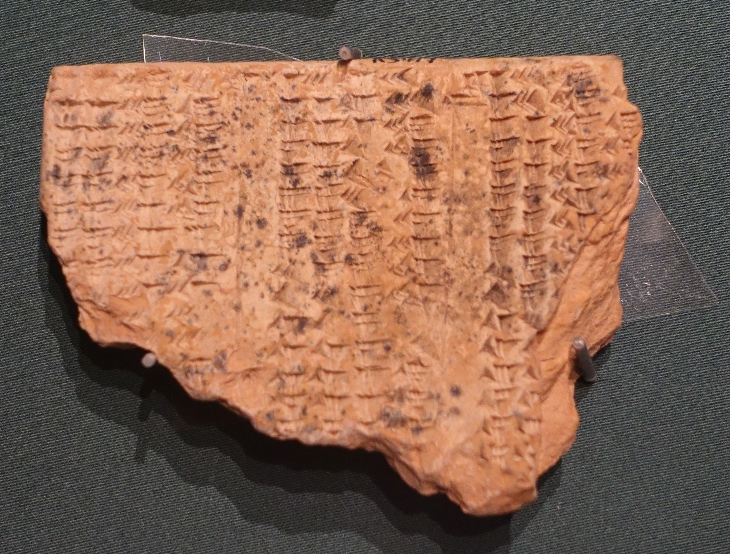 Exhibit in the Oriental Institute Museum, University of Chicago, Chicago, Illinois, USA. This work is old enough so that it is in the public domain.